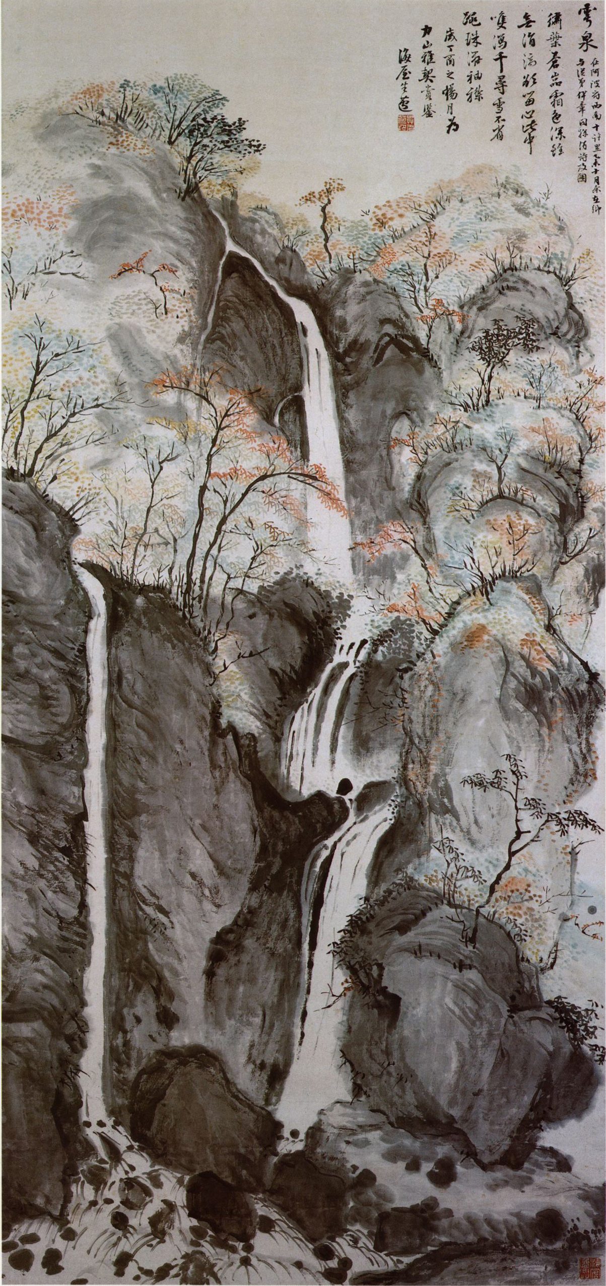 Mount Unzen in Autumn,Ink color on paper,hanging scroll 山水図（雲仙秋景図） 紙本淡彩